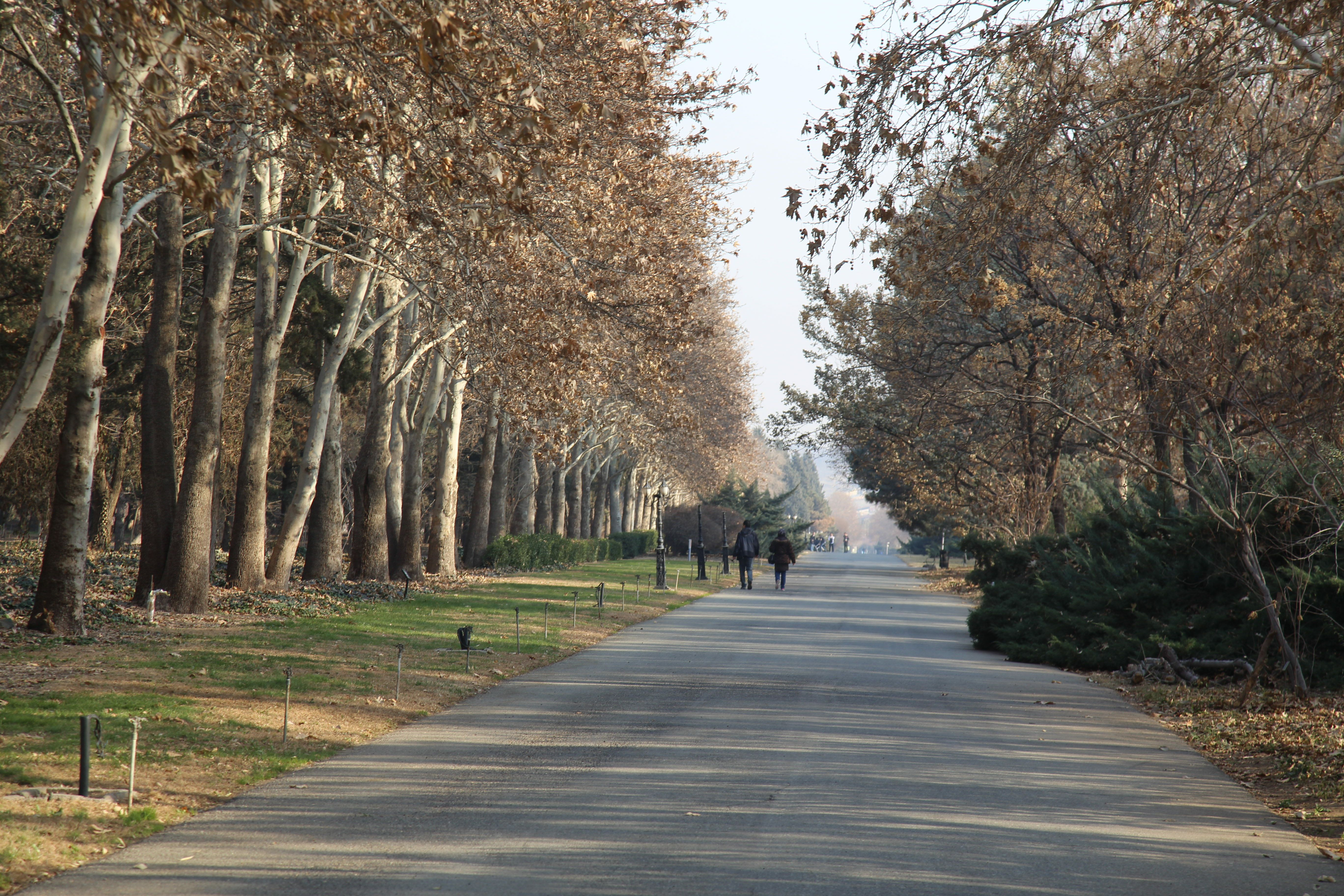 The main alley towards the entrance in Tehran Botanical Garden.